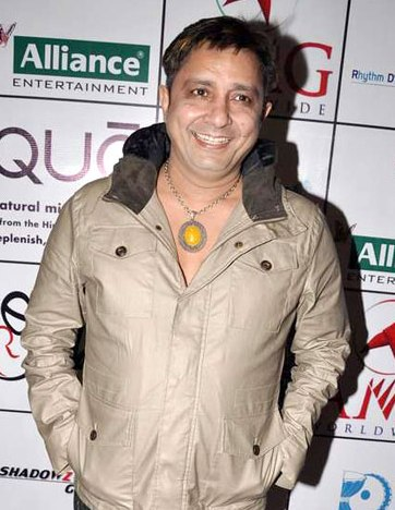 Sukhwinder Singh at Asha Bhosle's 80 glorious years' celebrations